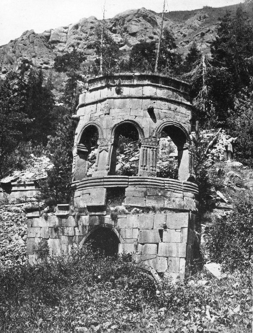 A bell tower of the Shoreti monastery in Georgia. View from the south Photographed in 1902 (Taqaishvili, 1909).